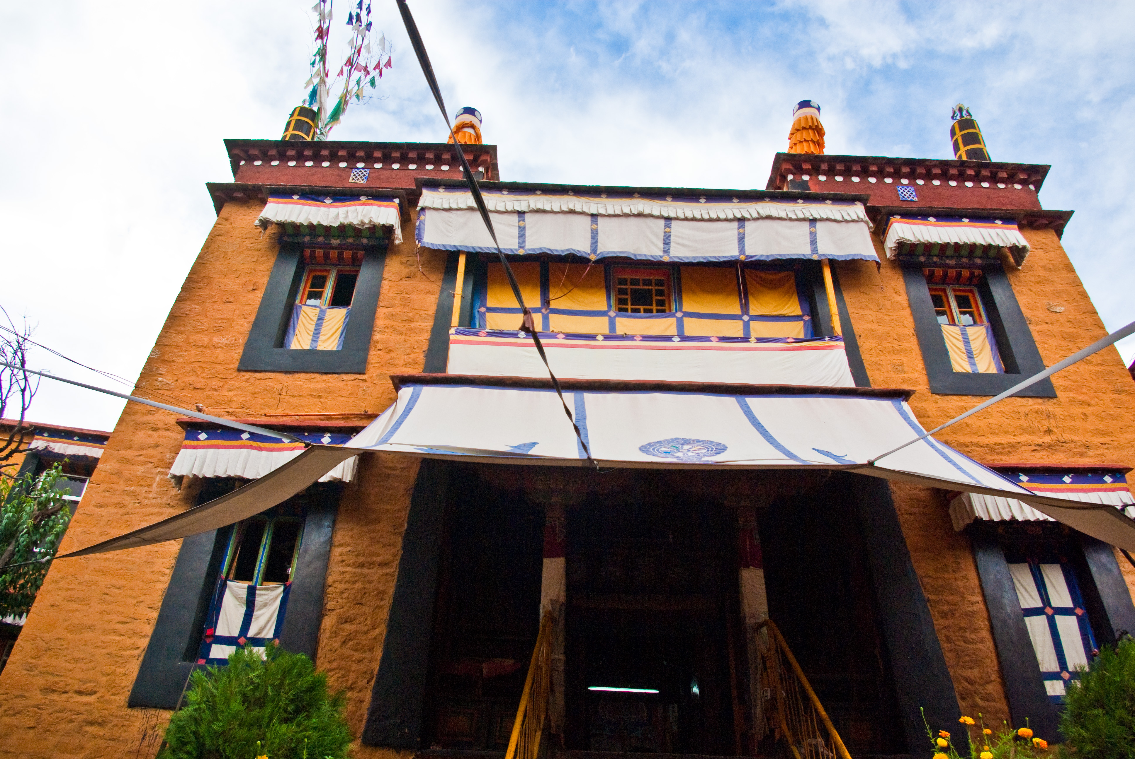 Ani Tsankhung (or Sankhung) Nunnery in Lhasa